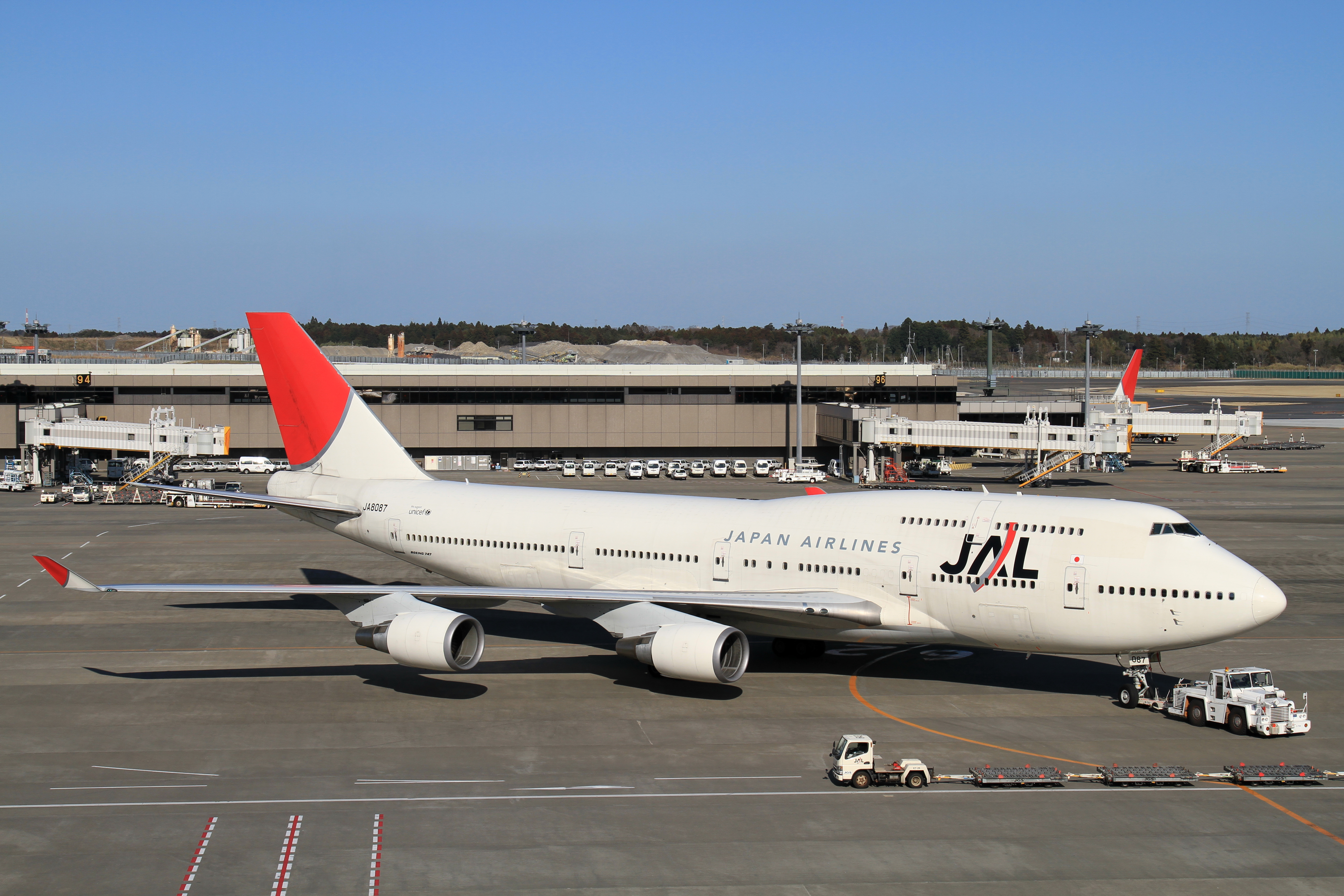 Narita International Airport, Boeing 747-446, c/n:26346 Japan Airlines